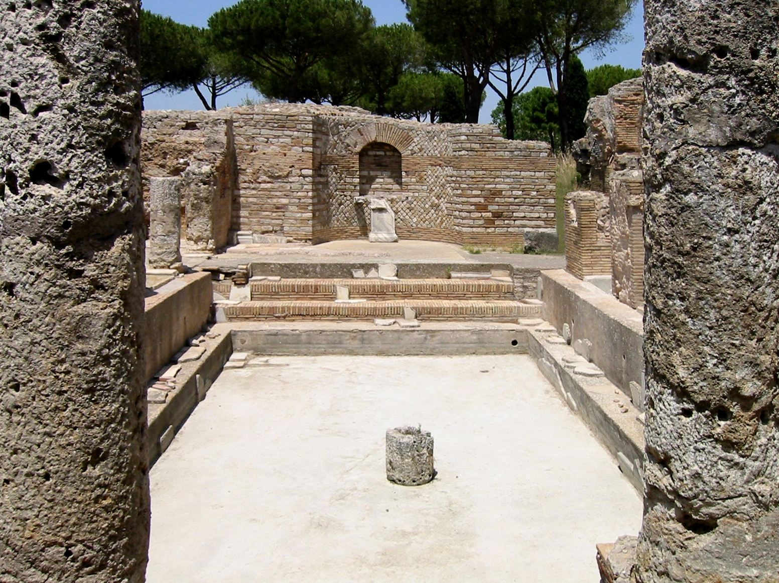 The Tepidarium at the Terme Taurine near Civitavecchia (the roman Centumcellae) in Lazio in Italy